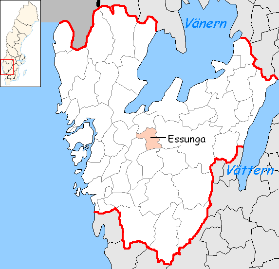 Essunga Municipality in Västra Götaland County Designed by me. Mere outlines are a PD source from